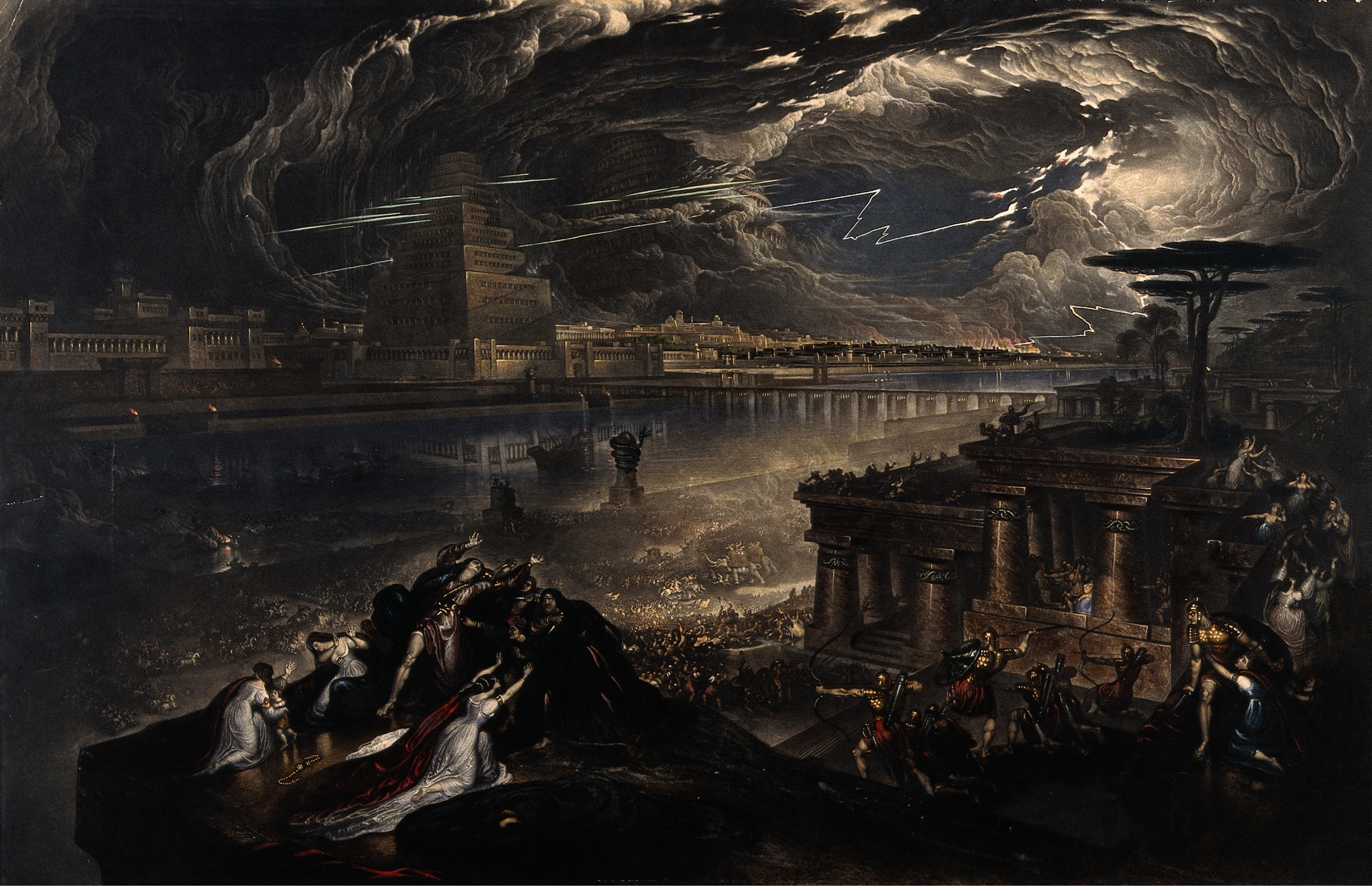 The fall of Babylon; Cyrus the Great defeating the Chaldean army. Mezzotint by J. Martin, 1831, after himself, 1819. Iconographic Collections Keywords: John Martin; Cyrus